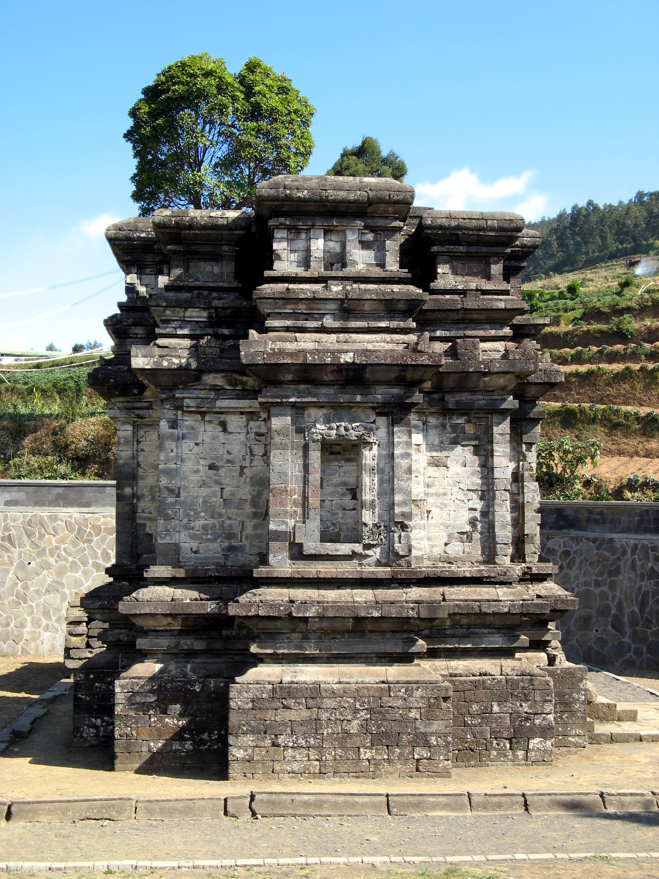 This small Shiva temple (a yoni was found inside) is located along a path that leads south from the Arjuna group. Its north face is seen here, with a central niche that is framed by the remains of a kala-makara arch. The wall, behind the temple, is a recent construction (2007/2008).